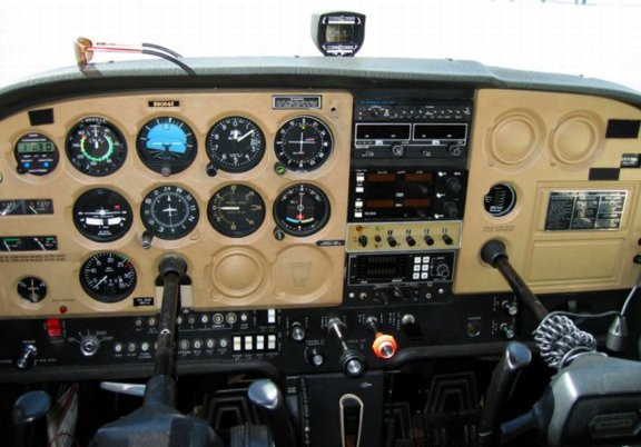 Instrument panel updated in 1976 to provide standard "6 pack" arrangement. Note also that fuel and other gauges are relocated to the left side for improved readability compared with earlier 172 panel. Photo taken 3/24/06.